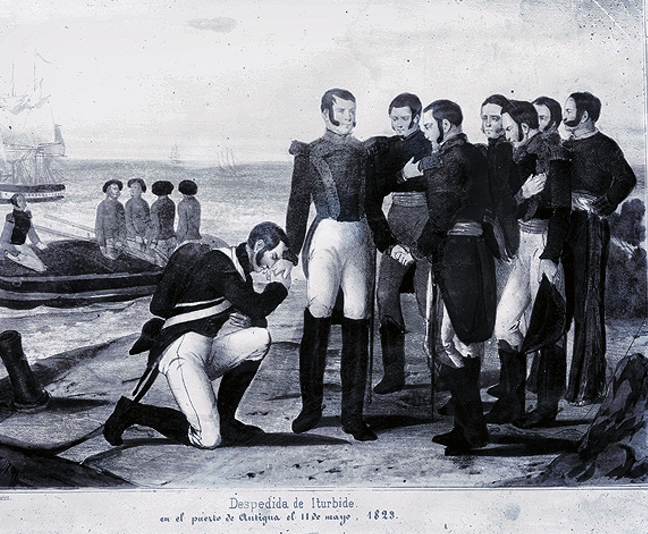 Iturbide 1823